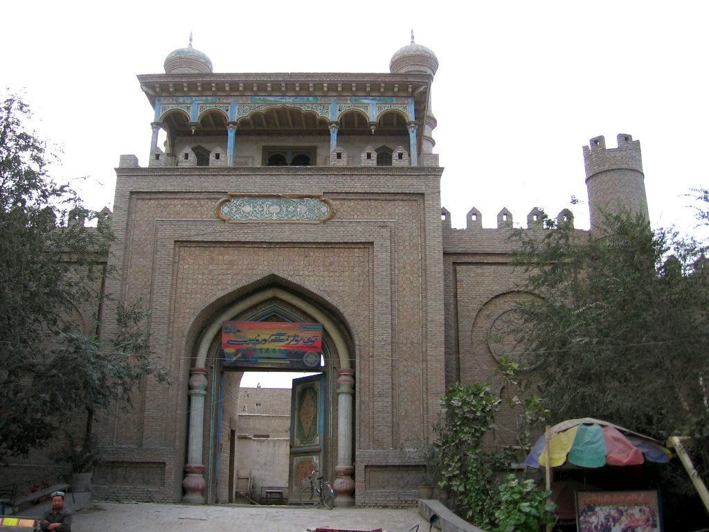 Yarkand (Sache) is an oasis city in the Xinjiang Uygur Autonomous Region of the People's Republic of China. A gate at Altyn Mosque complex.